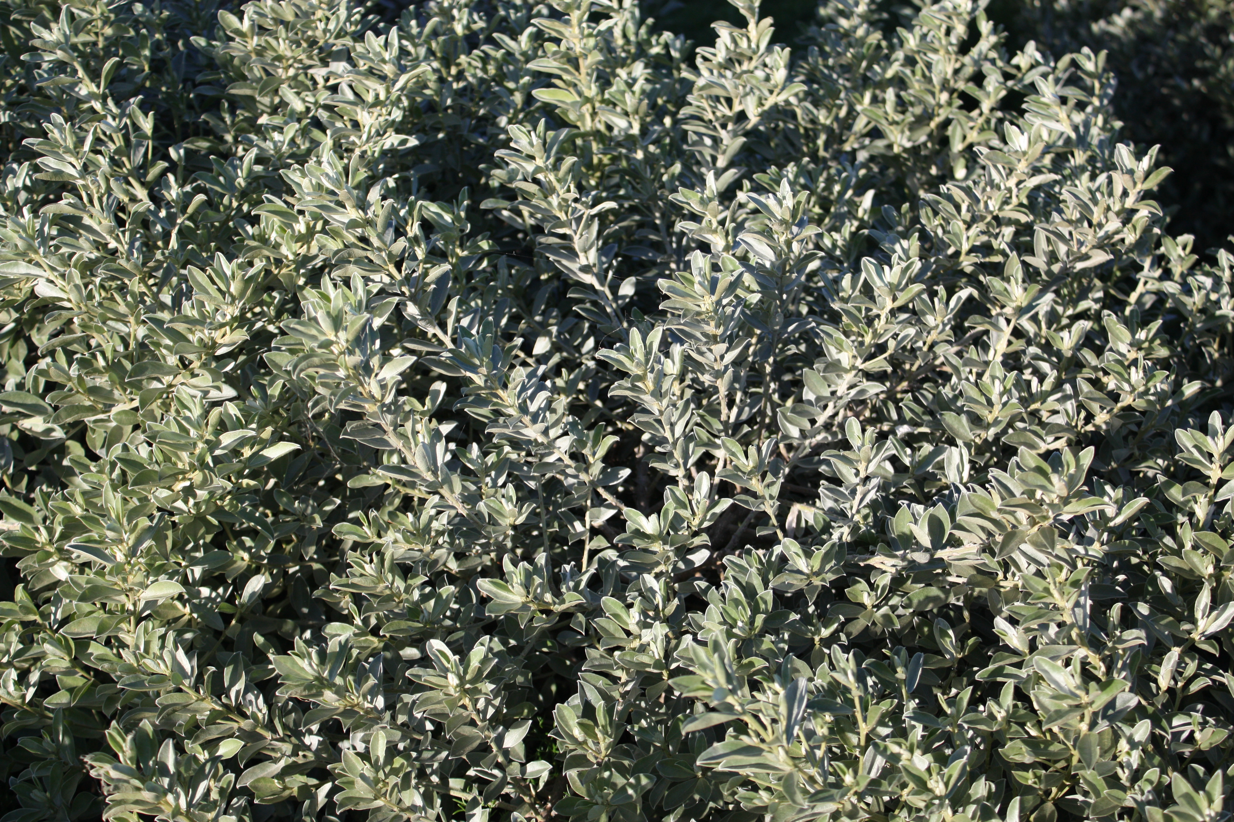 Podalyria sericea. Indigenous silver-coloured shrub of Cape Fynbos vegetation. Tiny black seeds dispersed by ants. South Africa.